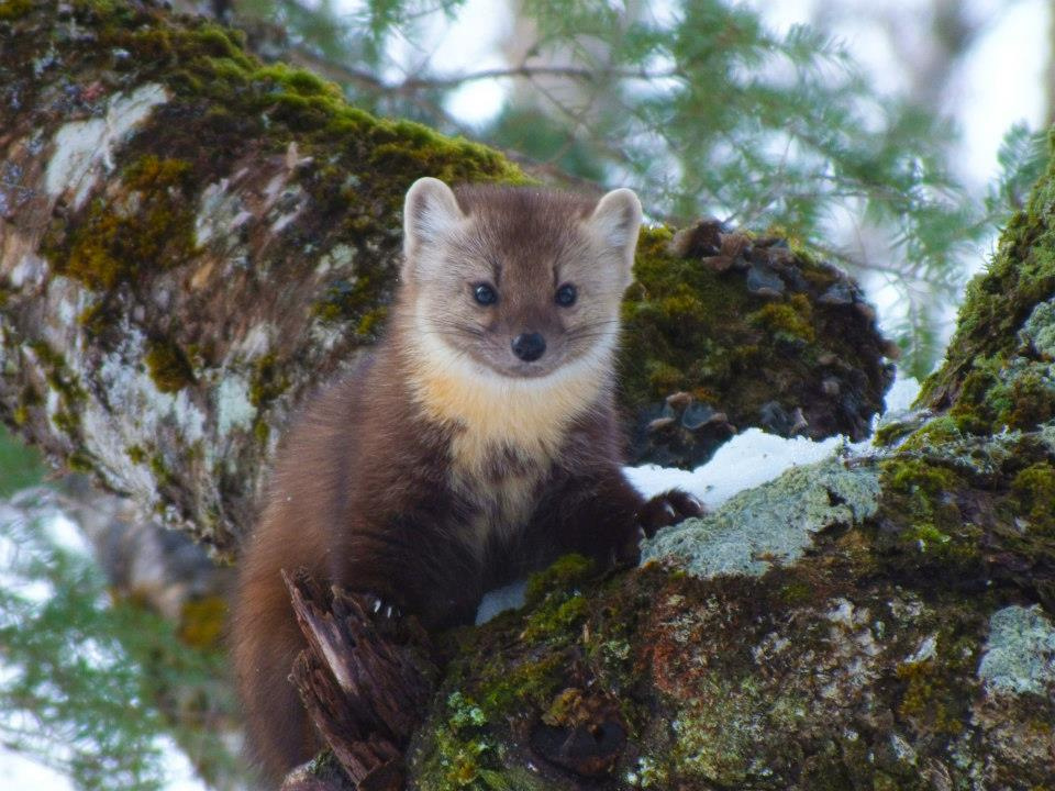 A Newfoundland Pine Marten Martes americana atrata curiously looking around